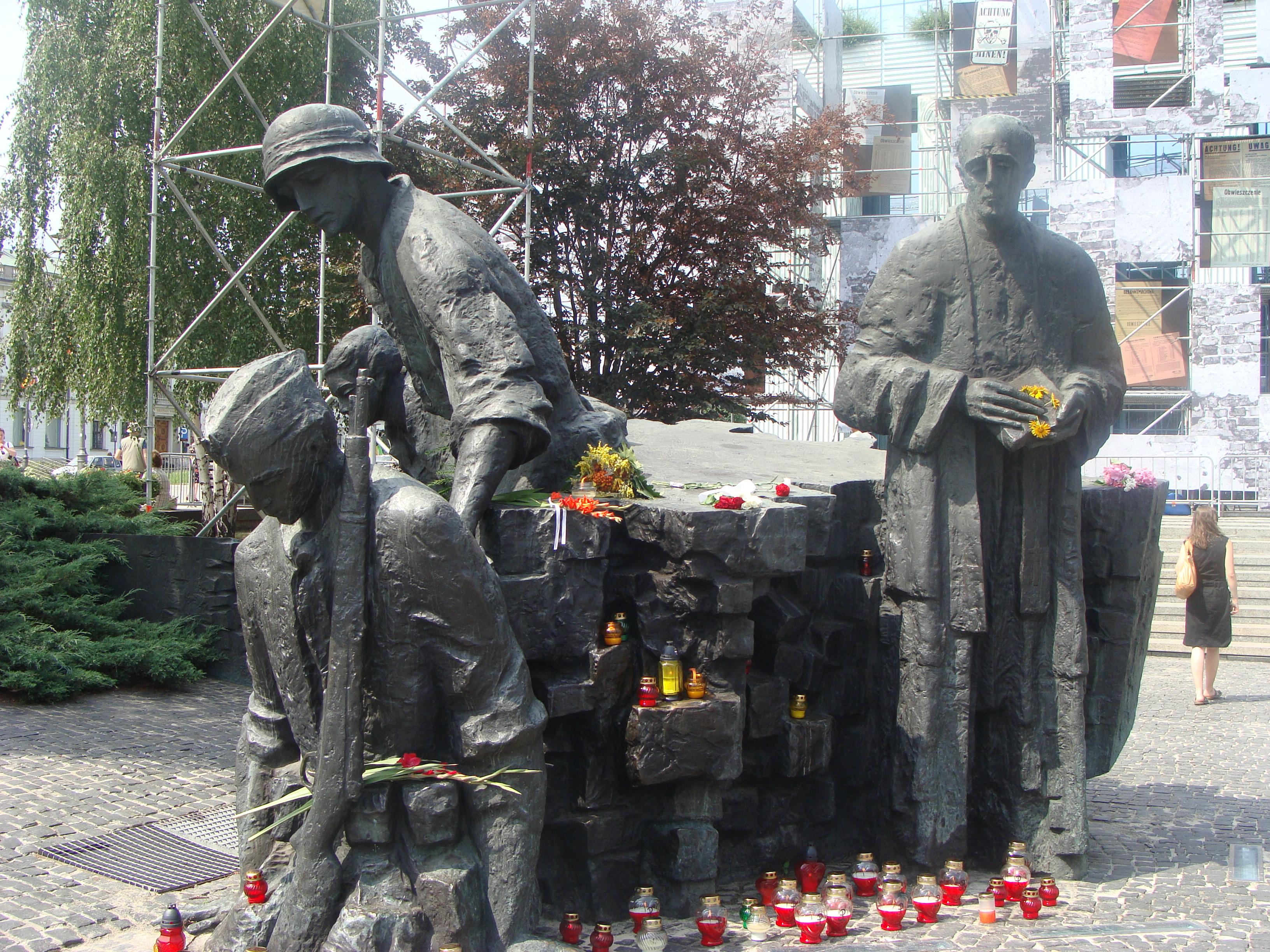 Warsaw Uprising Monument